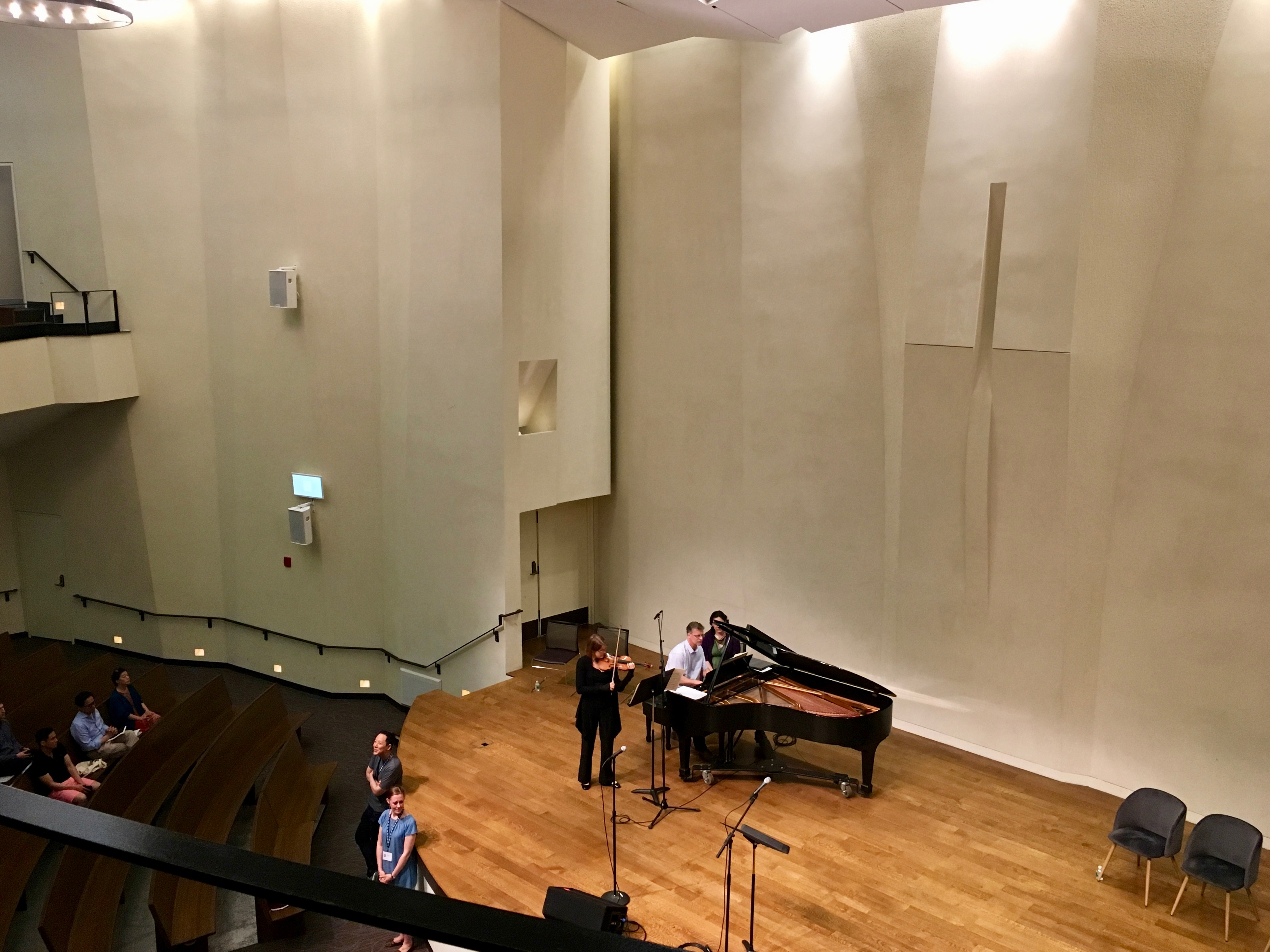 The W83 building of Redeemer Presbyterian Church.